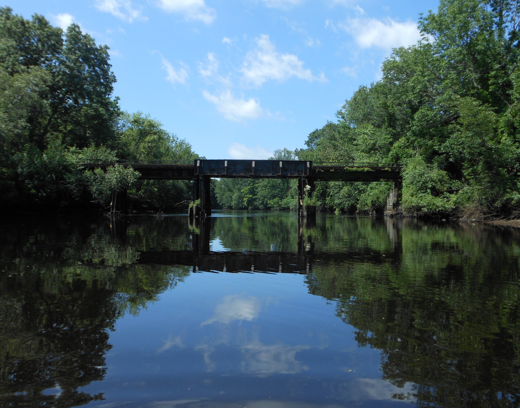 Railroad bridge over Taunton River - near Ingall Street, Weir Village, Taunton, Massachusetts. Viewed from Taunton River.